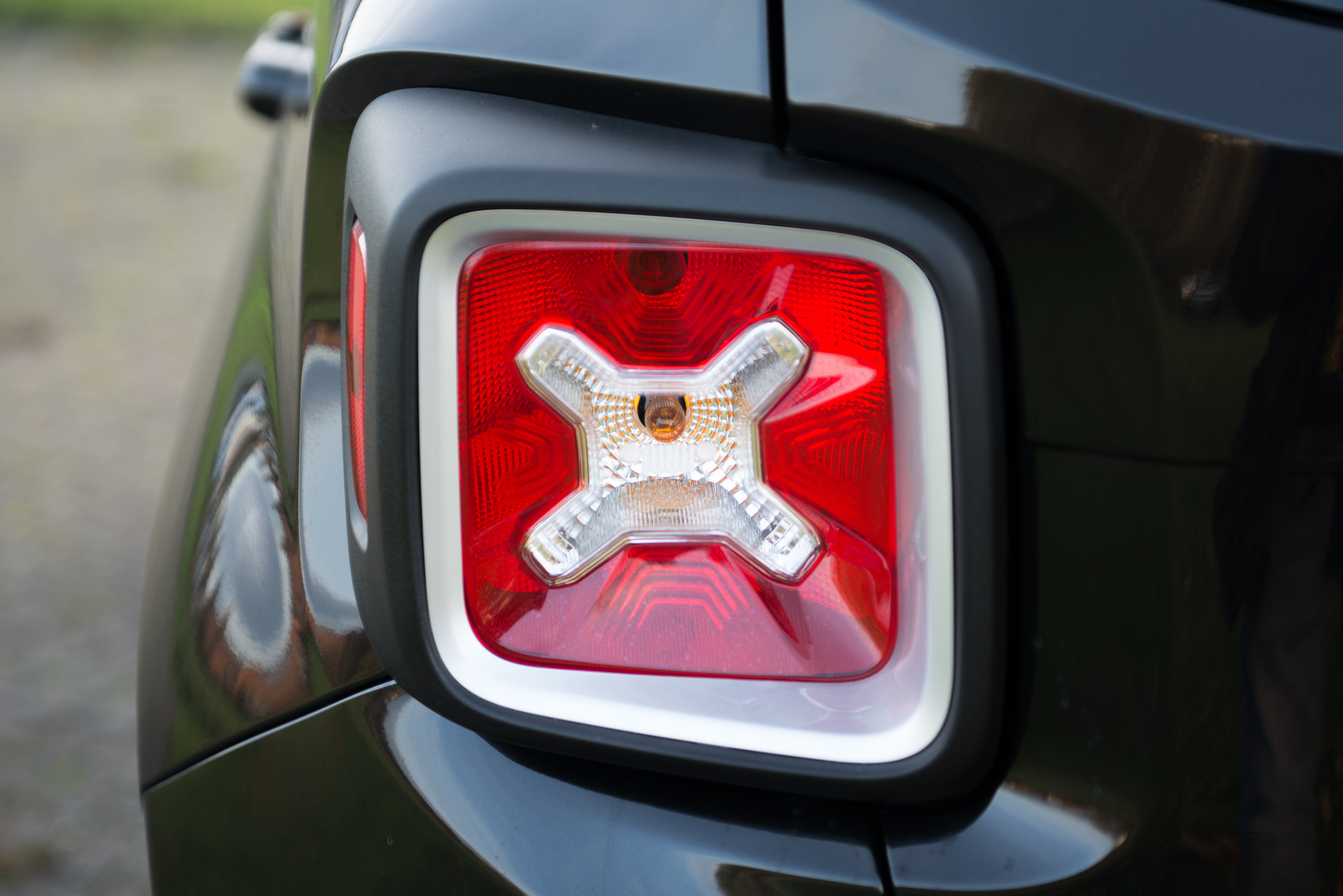 A Jeep Renegade exposed in Bitburg.